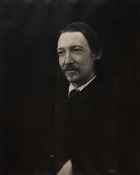 Accession no. PGP 114.1 Medium: Platinum print Original size: 36.90 x 29.20 cm Credit Purchased 1986